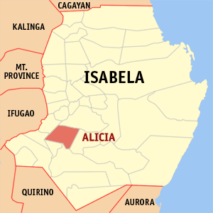 Map of Isabela showing the location of Alicia